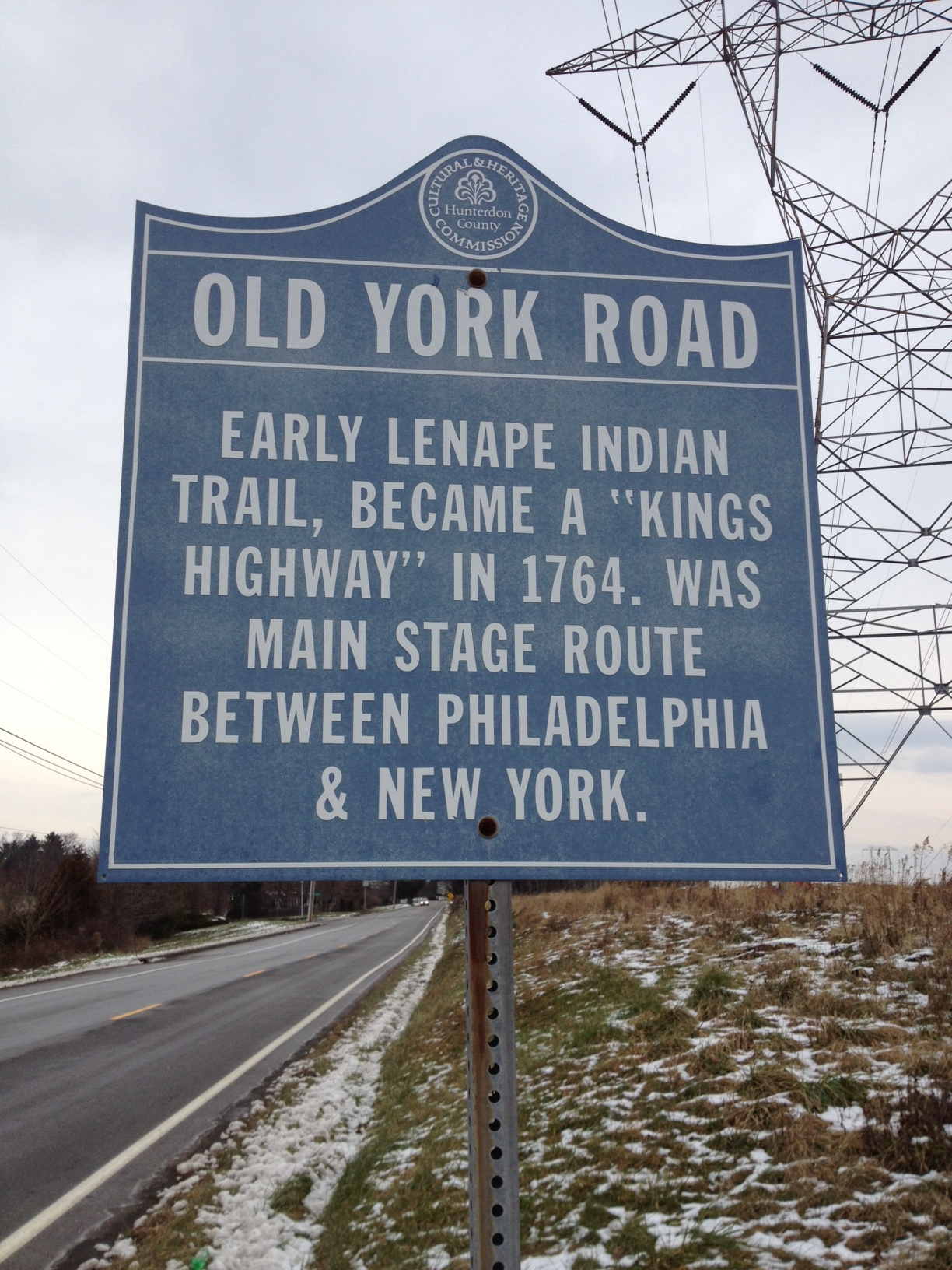 Sign along highway in Hunterdon County, NJ